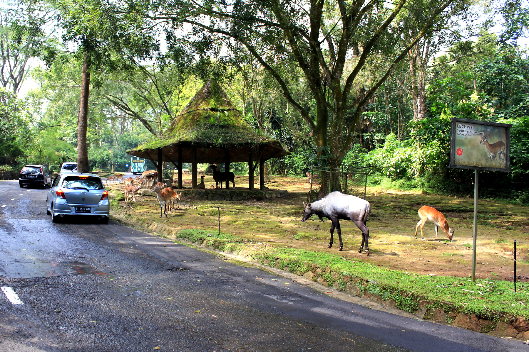 Drive through zoo in Taman Safari, Bogor, IndonesiaBahasa Indonesia: Berkendara di Taman Safari